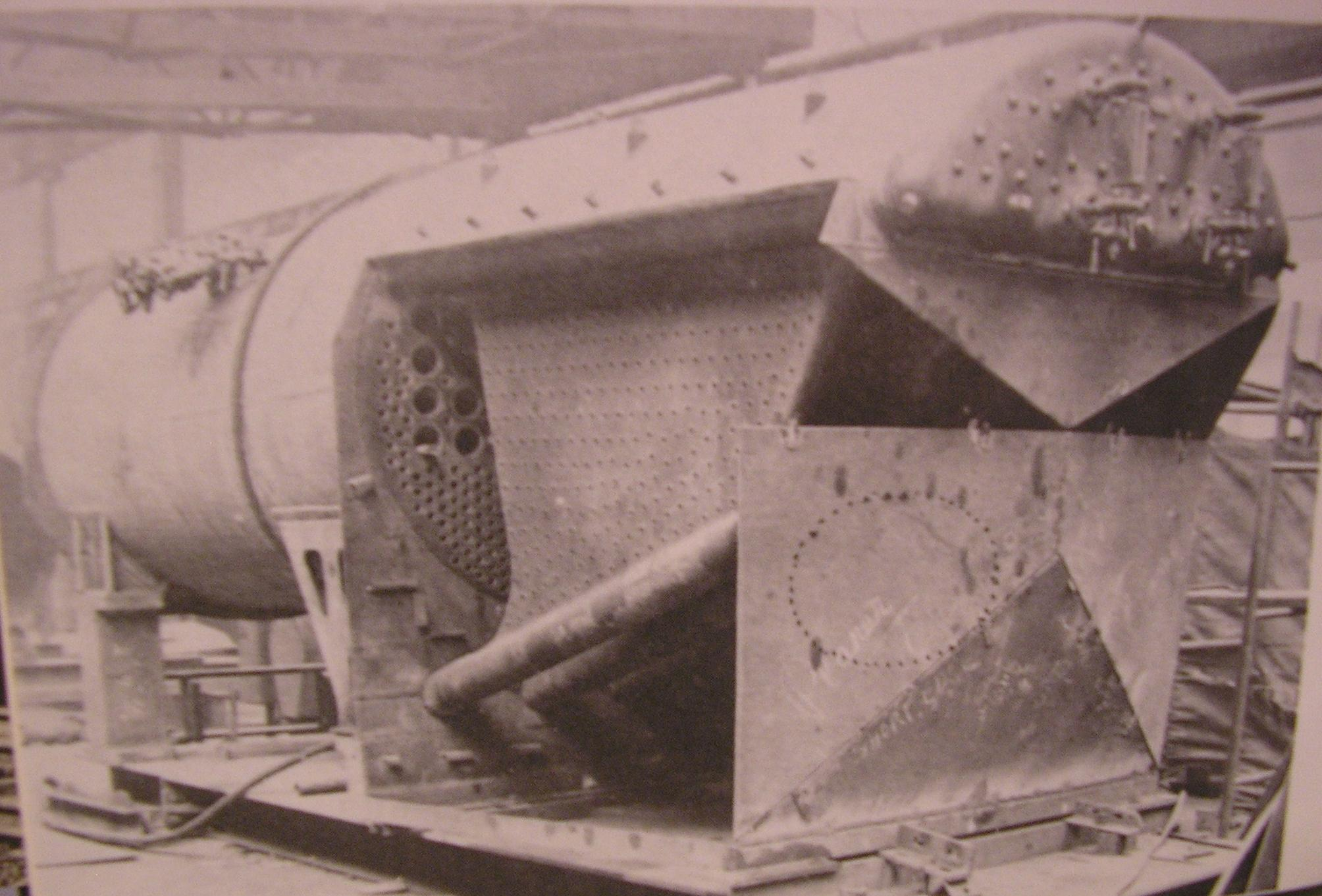 Official photograph of the Leader boiler under construction at Brighton works. Taken in early 1949 by British Railways, a nationalised (UK government) concern.